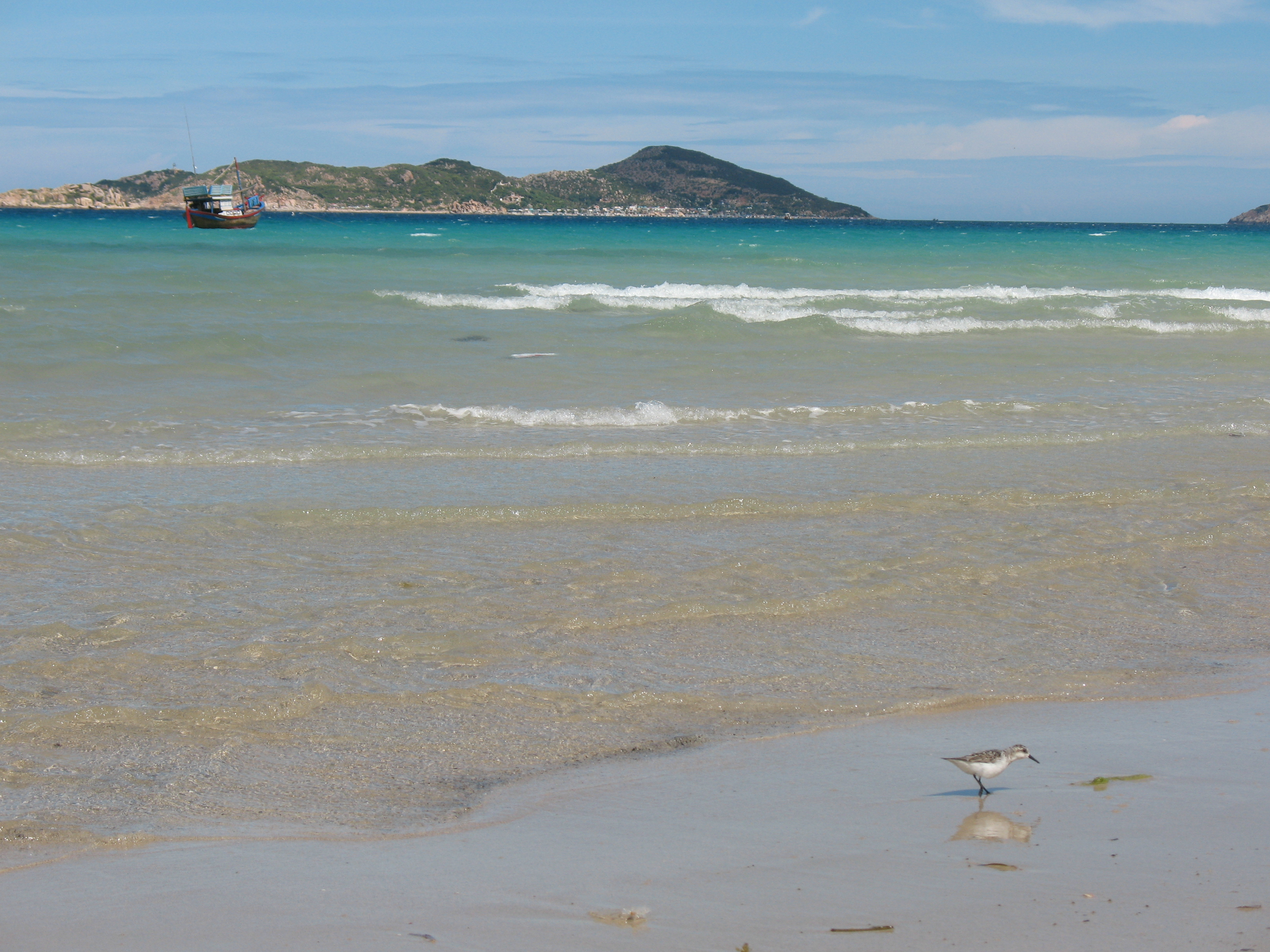 Vịnh Vĩnh Hy, Núi Chúa National Park, Ninh Thuận Province